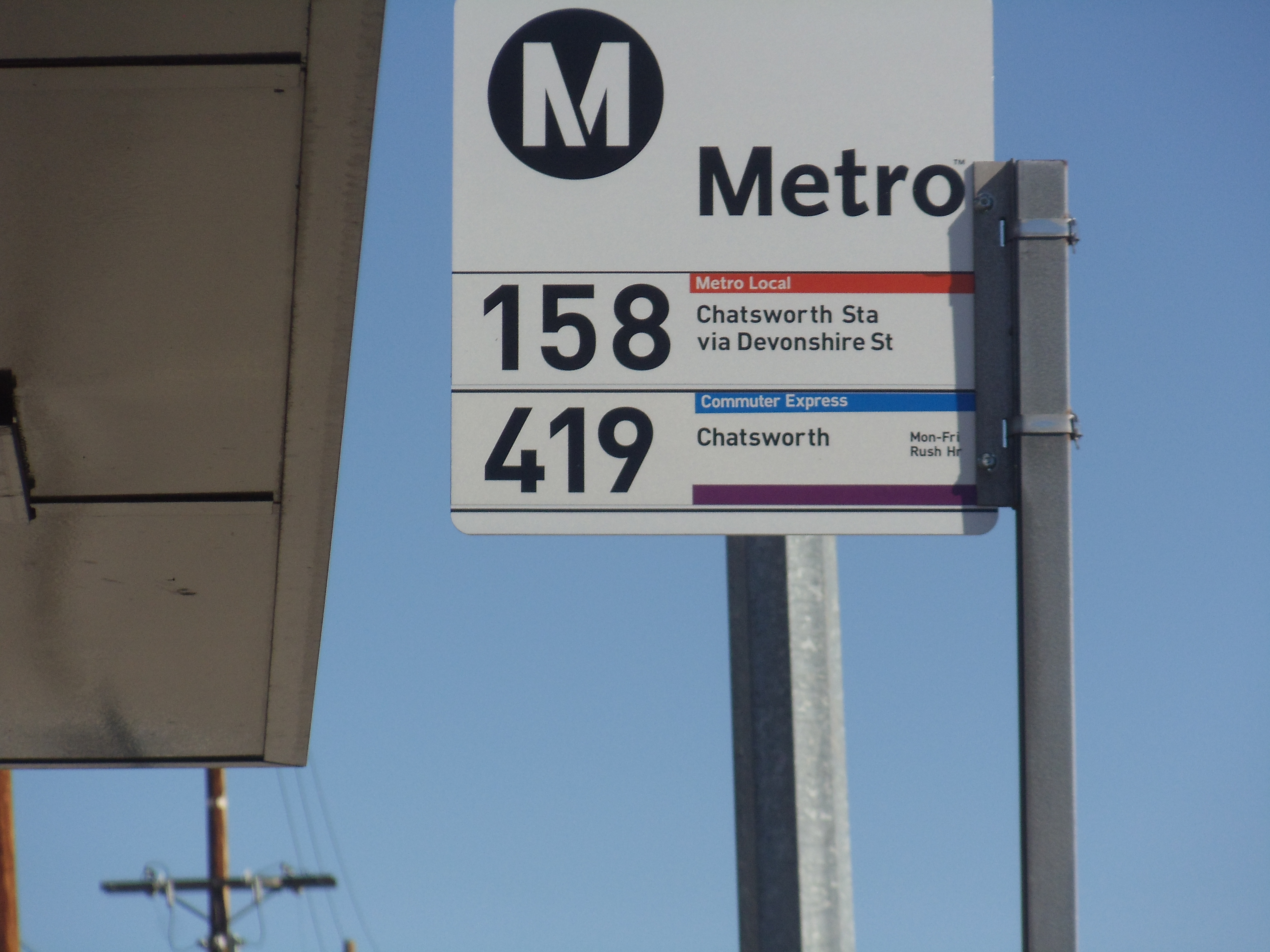 Metro Local line 158 bus stop.